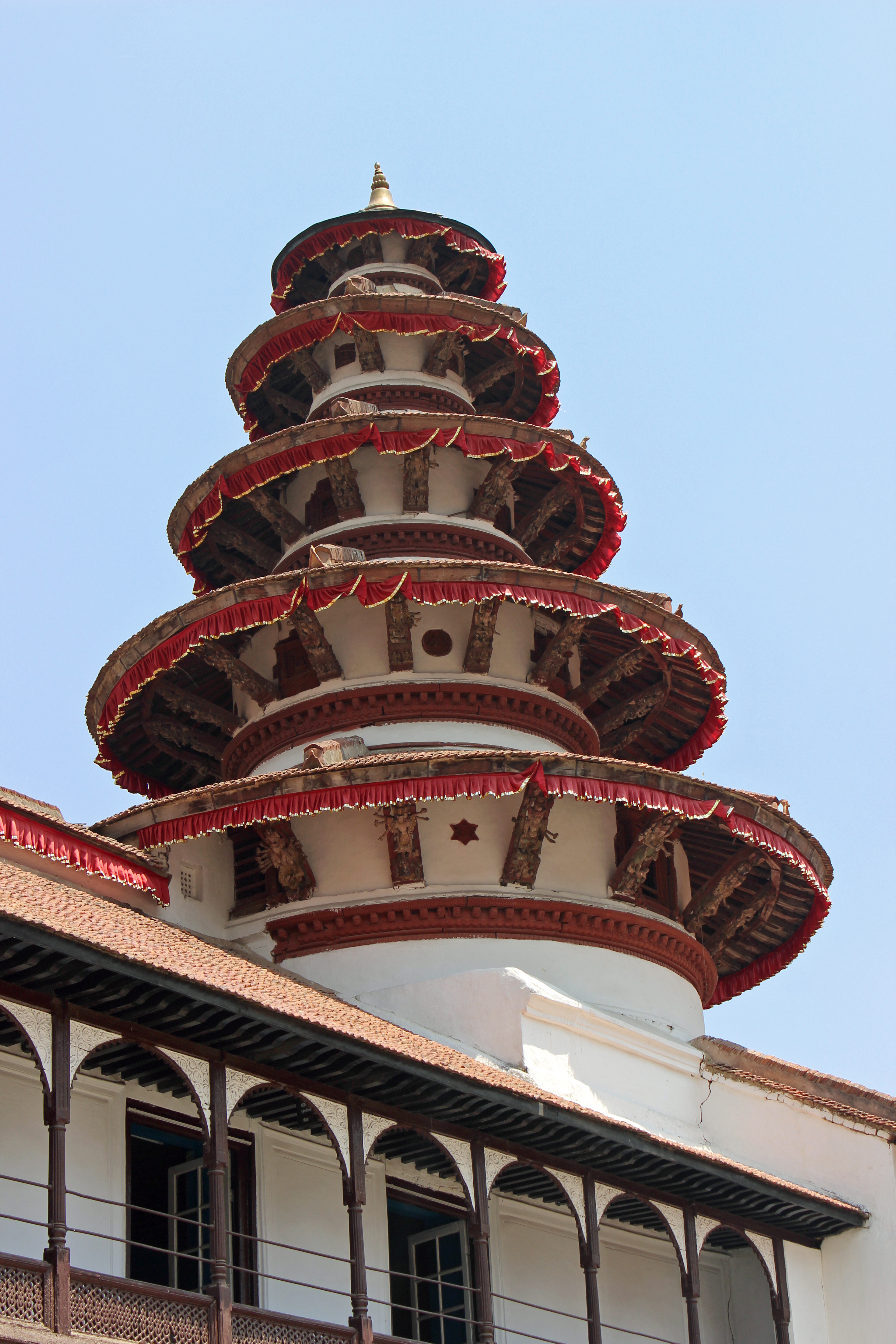 Pancha Mukhi Hanuman temple, view from the Nasal Chowk, at the Durbar Square, in Kathmandu, Nepal